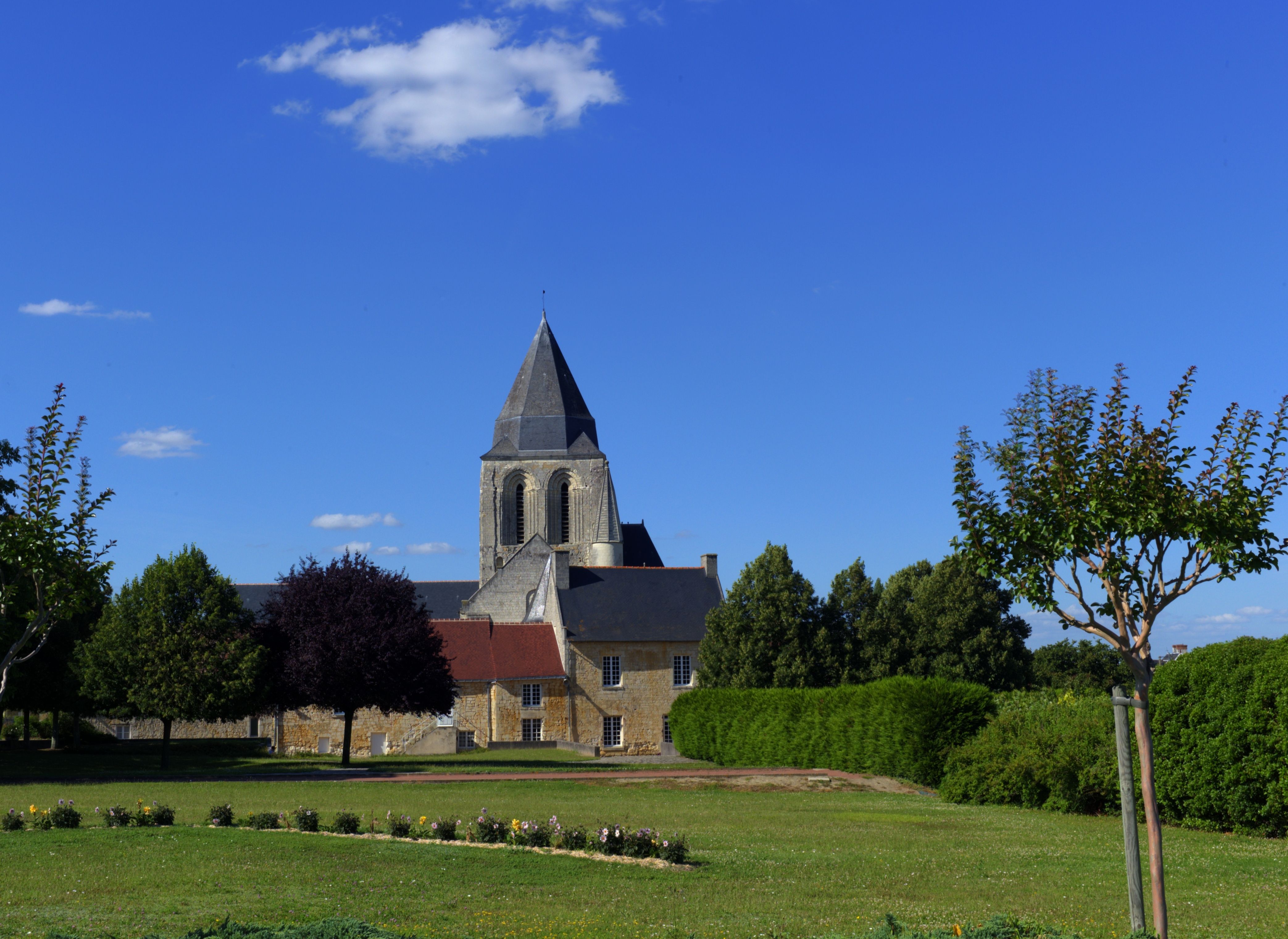 Church Saint-Vincent of Vernoil-le-Fourrier